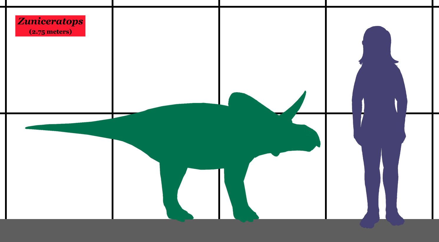 Size comparison between the ceratopsian dinosaur Zuniceratops and a human.